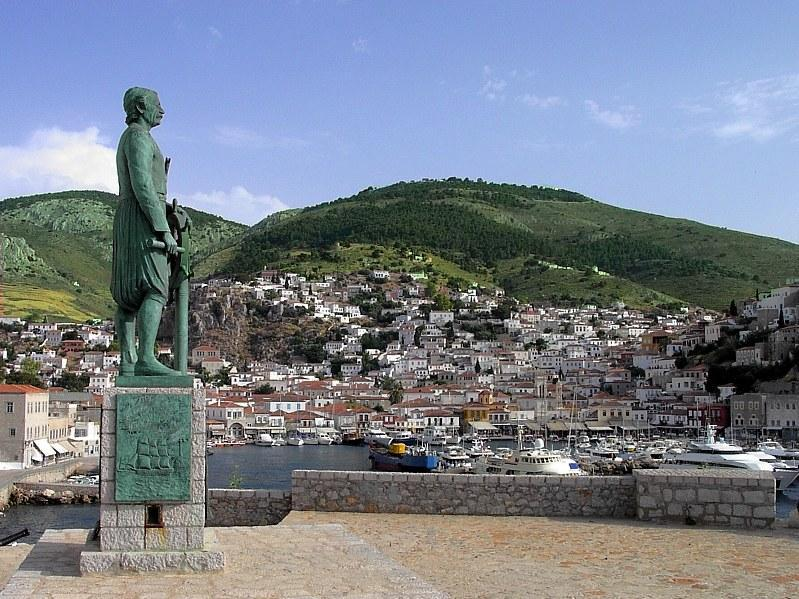 A statue on the island of Hydra Commemorating the Greek Admiral and politician, who commanded Greek naval forces during the 19th century Greek War of Independence, Andreas Miaoulis.